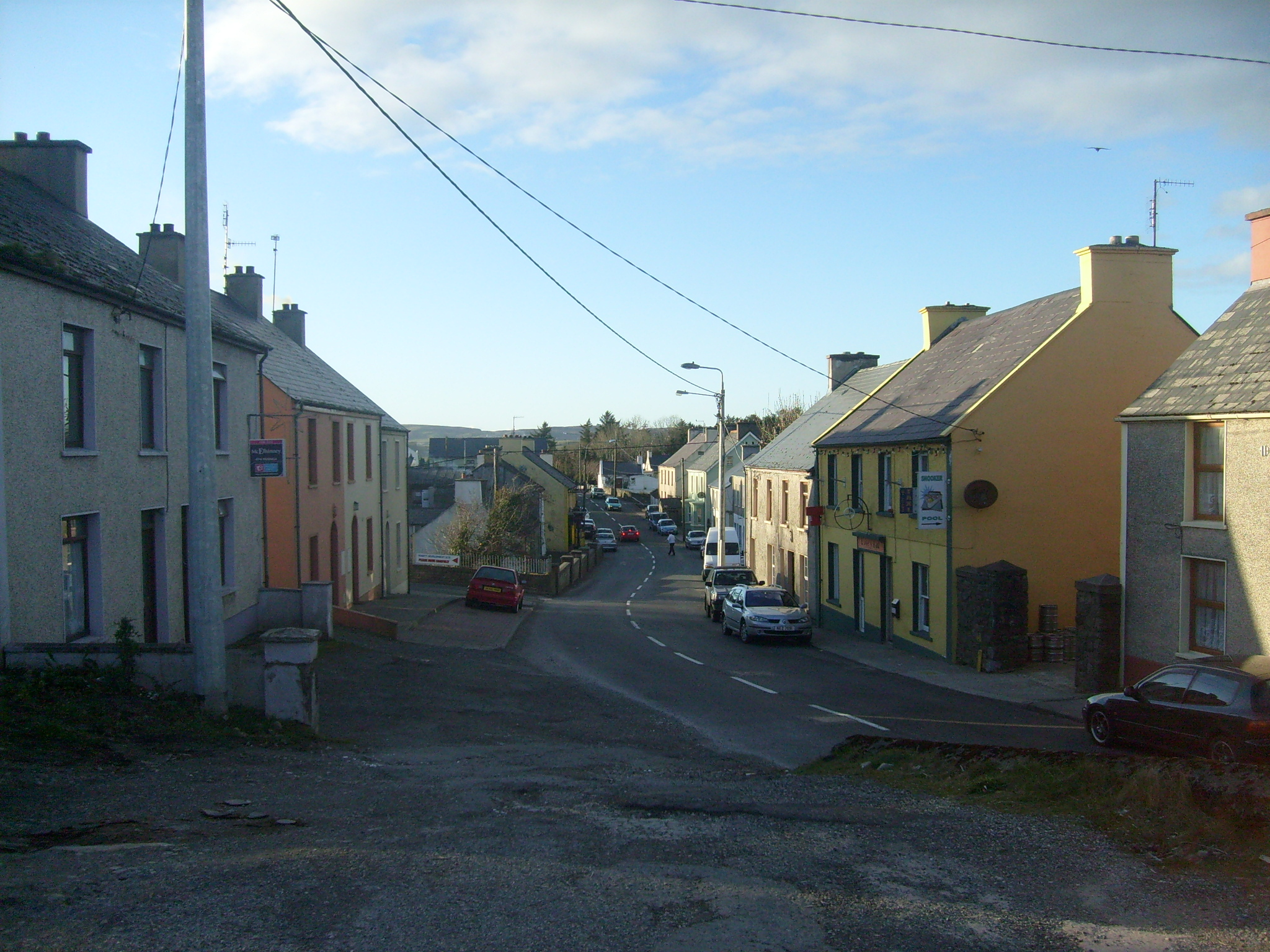 Creeslough main street